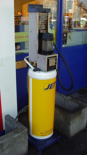 Petrol pump for fuel/oil mixtures (Two-stroke cycle).